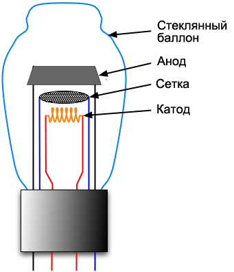 Object: Vacuum triode, russian version Description: based on this image Author: IMeowbot, Panther Created: Source